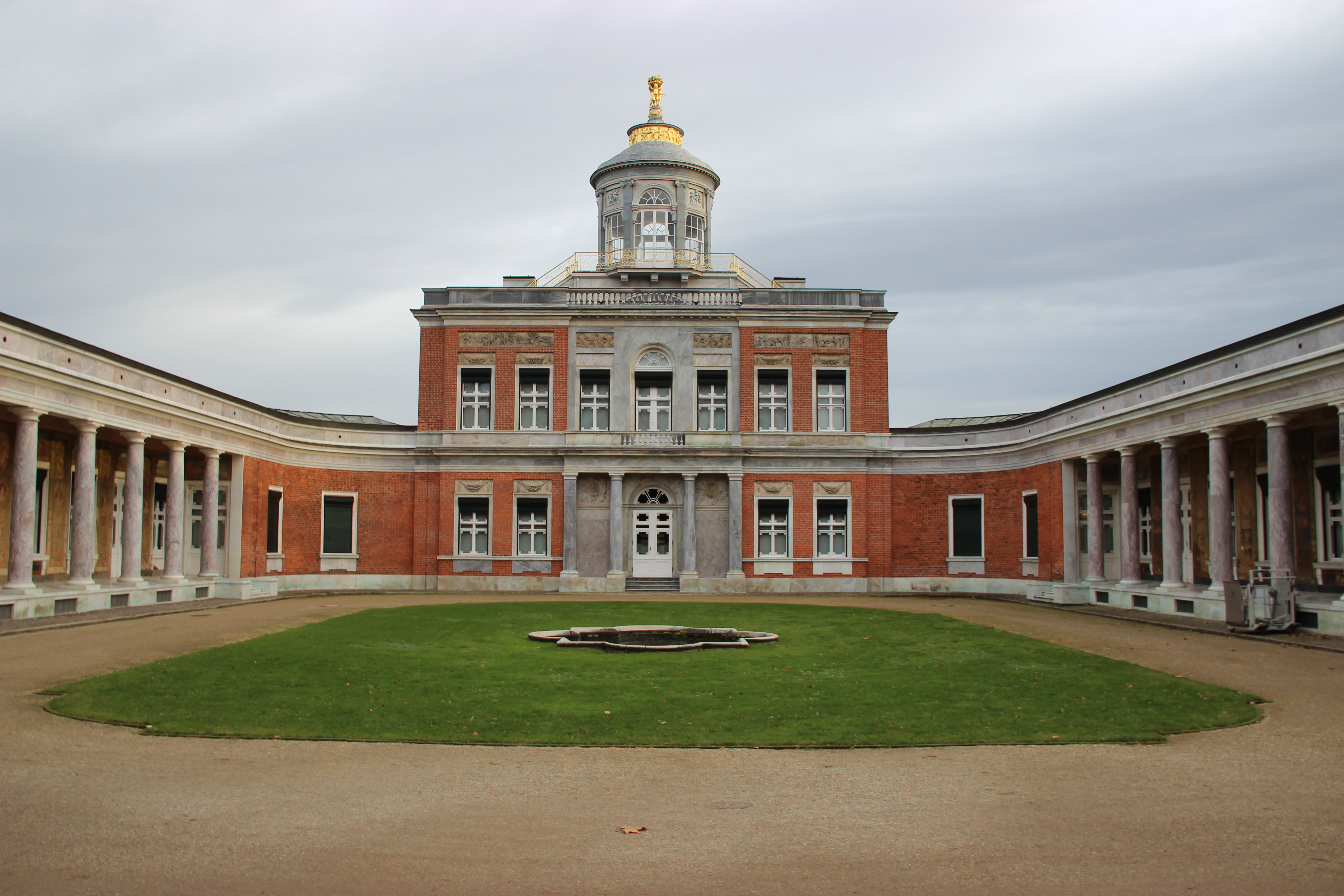 View on the Marmorpalais